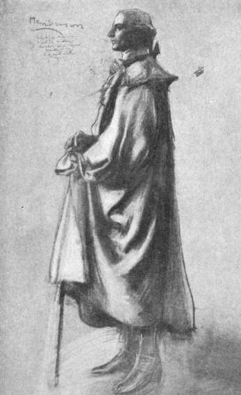 Detail from a painting by T. Gilbert White showing Kentucky pioneer Richard Henderson (1734–1785).